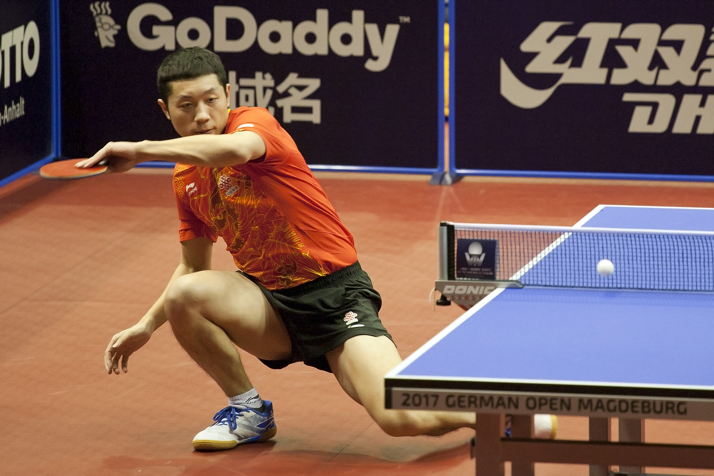 ITTF World Tour 2017 German Open, Magdeburg, Germany, 7 Nov 2017 - 12 Nov 2017, Xu Xin